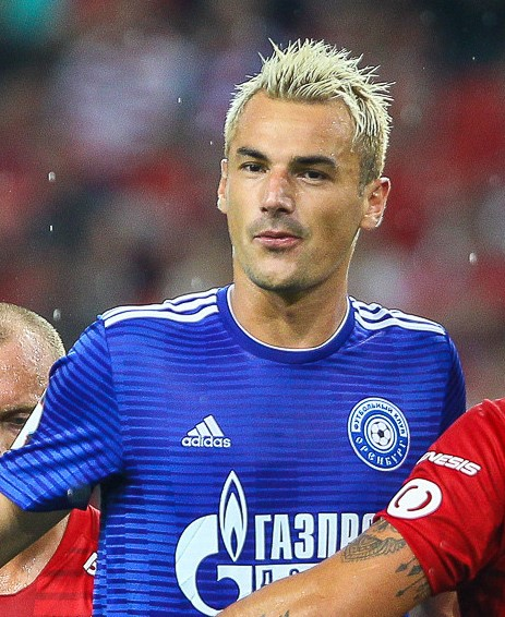 Silvije Begić